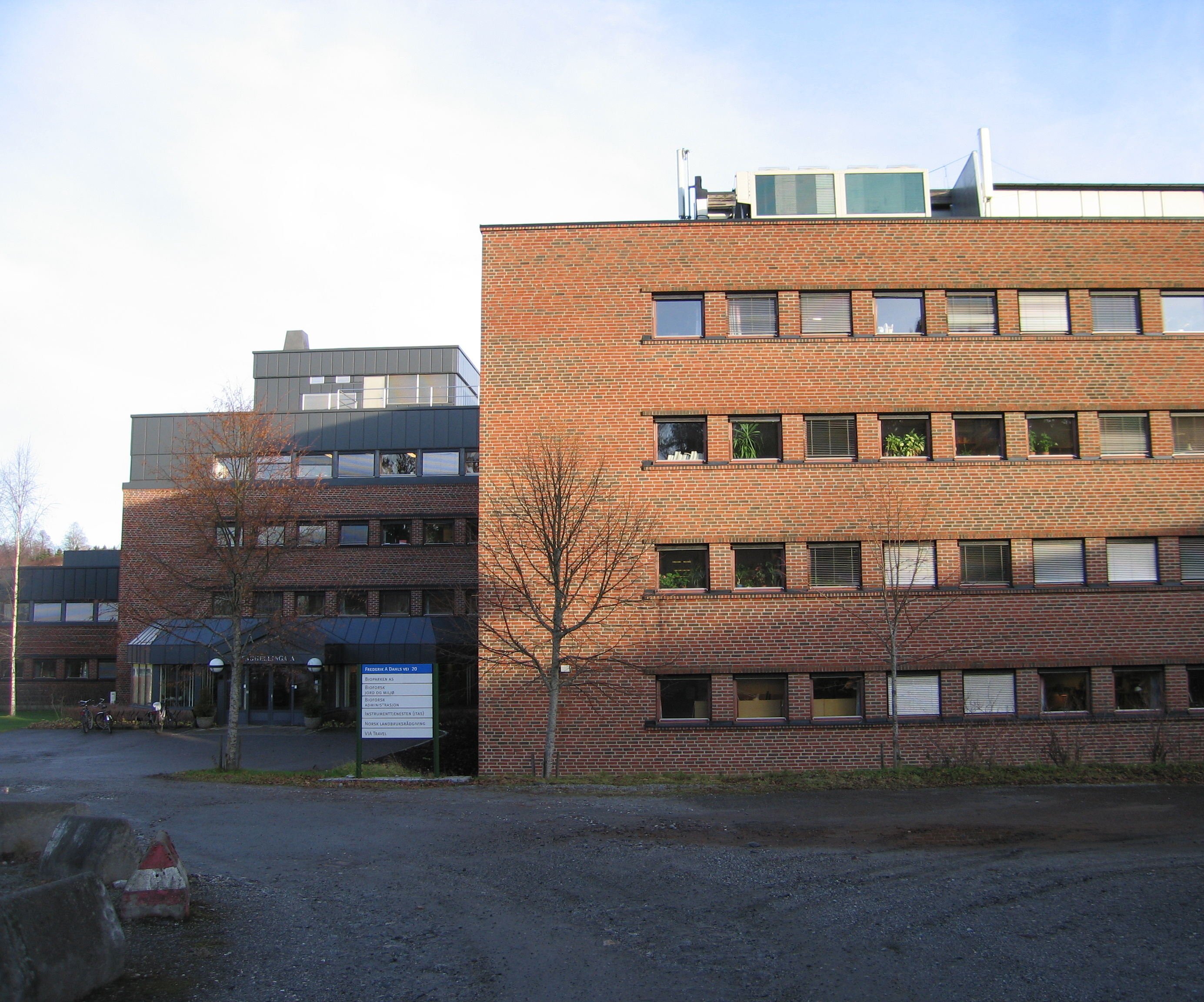 One of the buildings of the Norwegian Institute for Agricultural and Environmental Research (Bioforsk), in in Ås, 30 km south of Oslo.